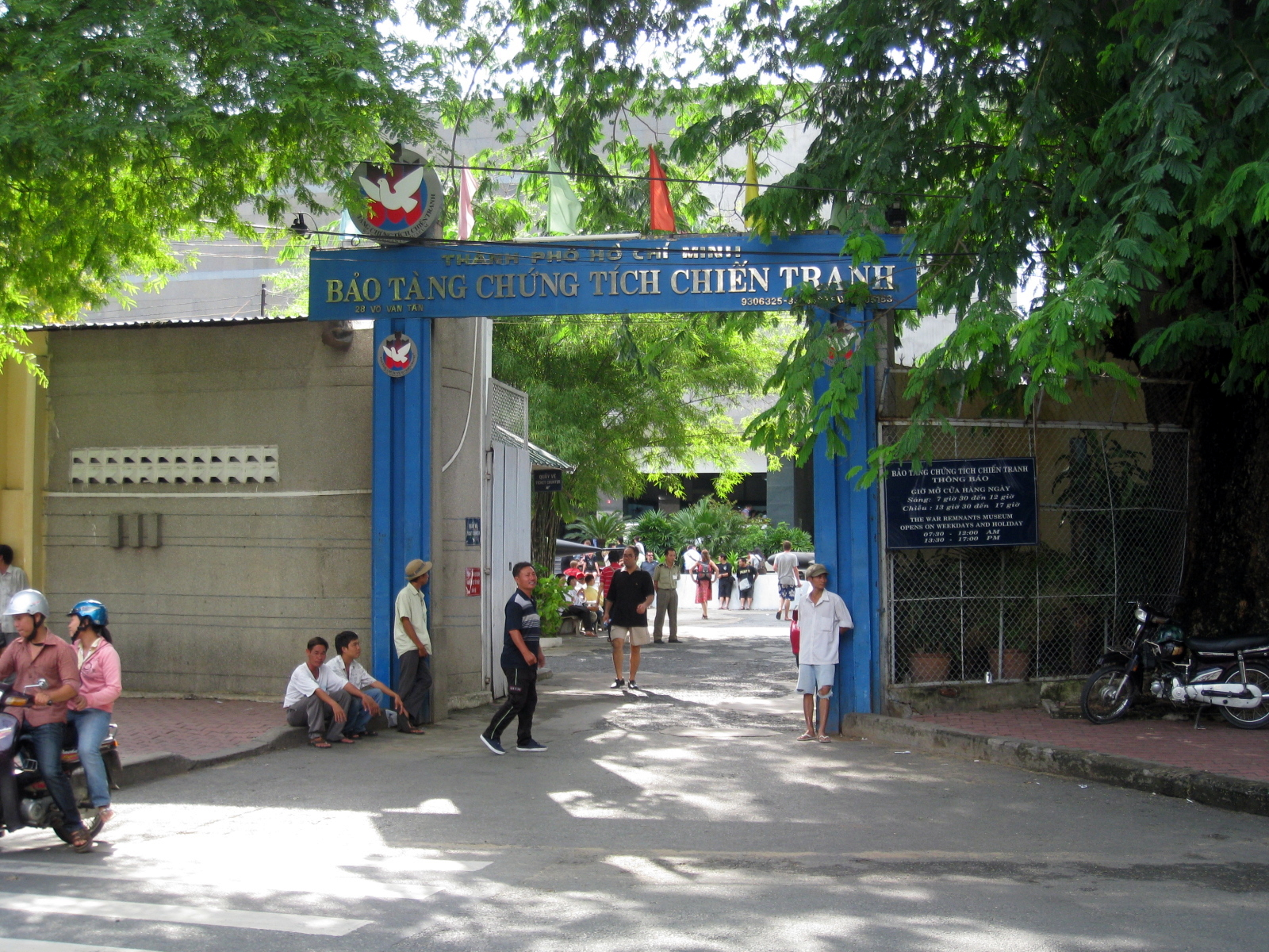 War Remnants Museum Enterance 戰爭遺跡博物館